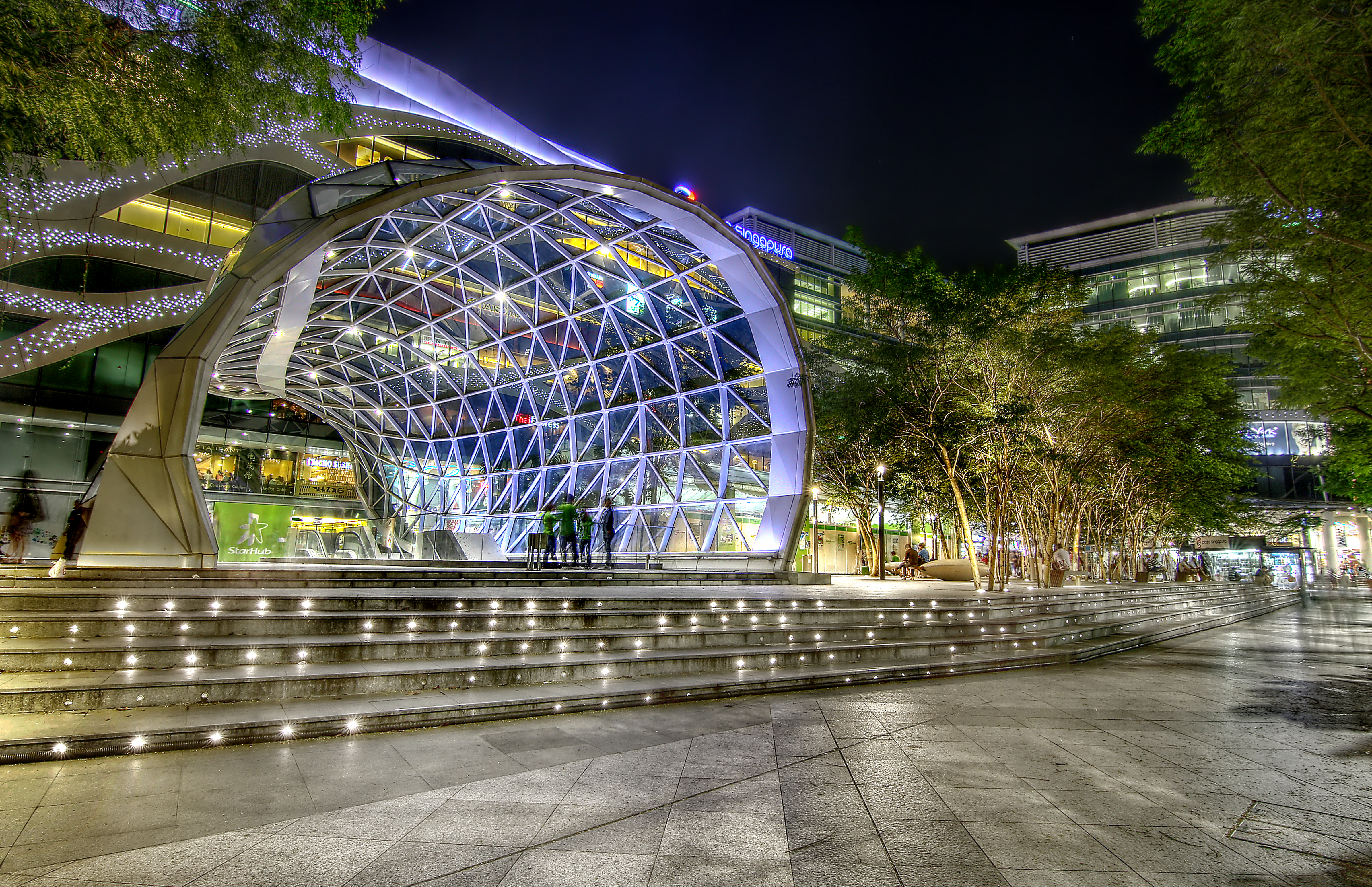 Plaza Singapura, Singapore, at night.